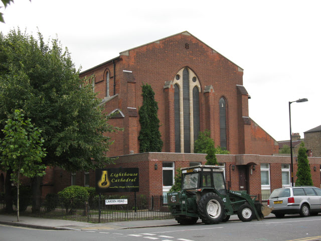 The Lighthouse Cathedral That is the present name of this church, which was built in 1957 to the designs of Lawrence King as St Anthony's (Church of England). It was listed grade 2 in 1972 but became surplus to requirements and was declared redundant in 2001 and sold to its present owners. The previous church on the site (destroyed by bombing in 1940) was called StAntholin's and built in 1878.